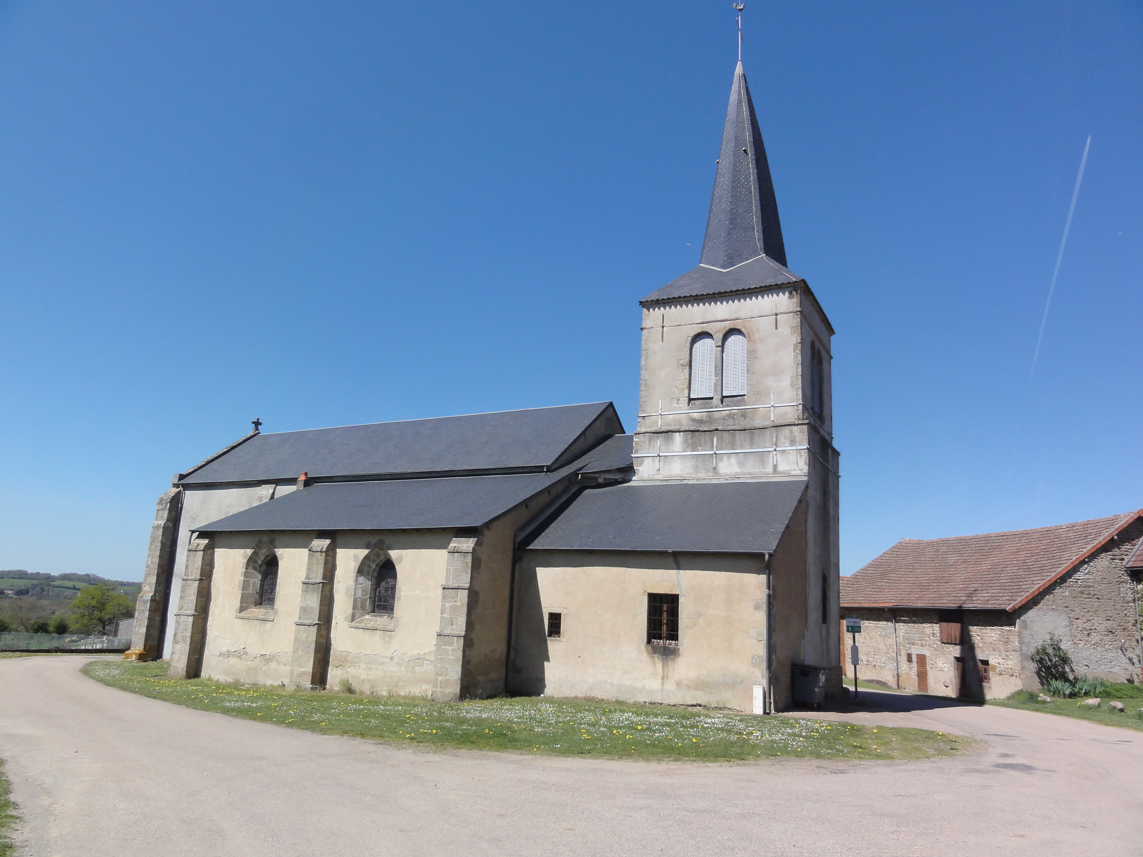 Le Quartier (Puy-de-Dôme) église